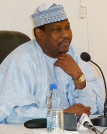 Niger Forum Jeunes Entrepreneurs, United States Ambassador Bisa Williams with National Assembly President Hama Amadou.